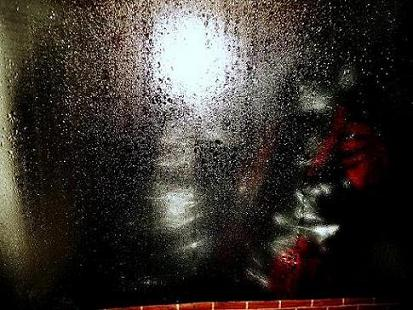 Drops of waters on windows.japanese it name is "Ketsuro"